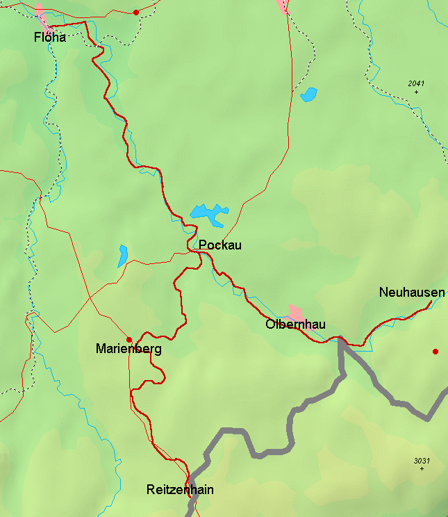 Map of the Floehatalbahn